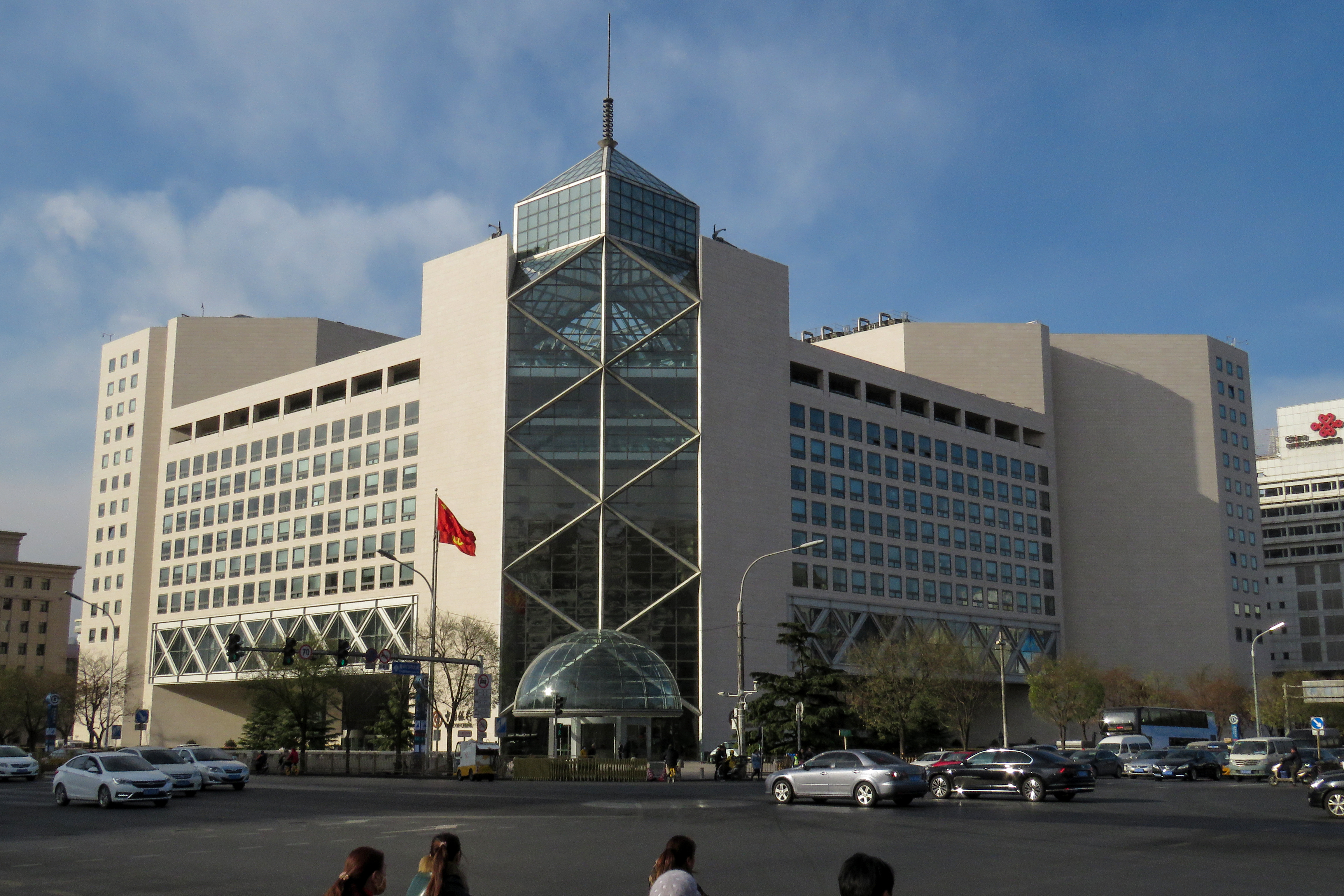 Failed to hunt MAX, so I went south... This is also a work of I. M. Pei!